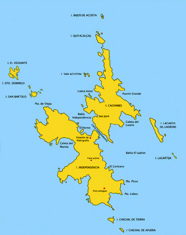 Map of Isla Lobos de Afuera